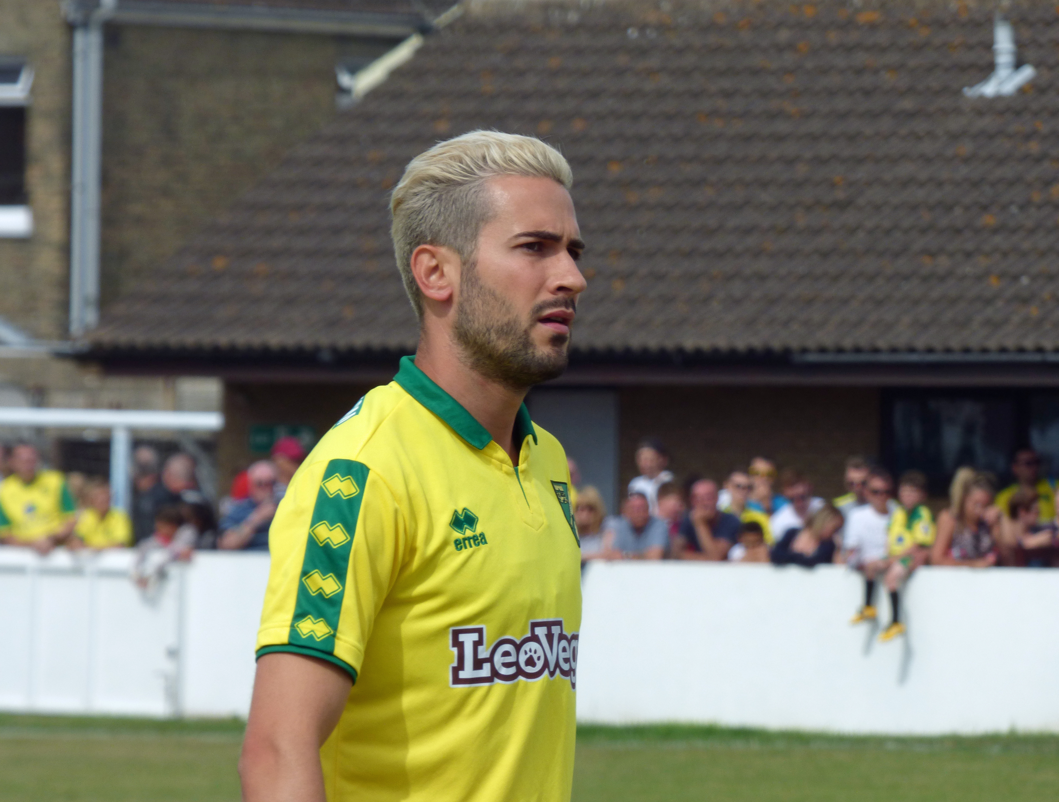 Mario Vrancic playing for Norwich City against Lowestoft Town